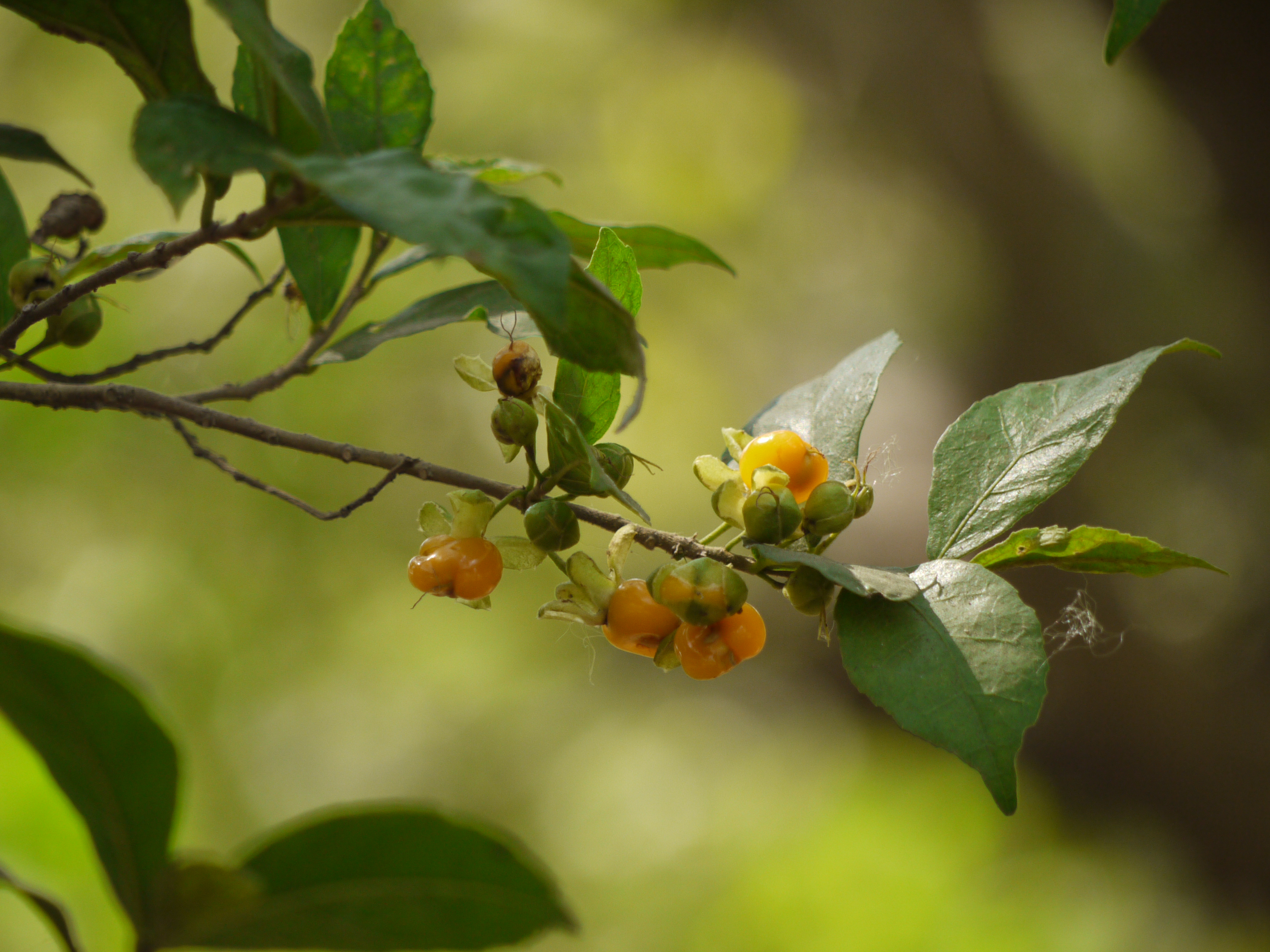 Moraceae (mulberry family) » Streblus asper STRAY-blus -- from the Greek streblos (crooked or twisted) AS-per -- meaning, rough commonly known as: demon tree, paper bark, paper tree, sand paper mulberry, Siamese rough bush, spinous mulberry, stunted jack, toothbrush tree • Assamese: শাঁবৰা shombaraa • Bengali: sheora • Garo: kharanchi-bol • Hindi: सेवड़ा sewra, सीहोरा sihora • Kannada: mitala • Khasi: dieng sohkhyrdang • Konkani: बेकर bekar • Malayalam: പരുവമരം paruvamaram • Marathi: खरोटी kharoti • Nepalese: खाक्सी khaksi • Oriya: hirtonimranu • Sanskrit: शाखोटकः shakotakah • Tamil: குட்டிப்பலா kutti-p-pala, பிராய் piray • Telugu: చుక్కలి chukkali, సాకోటము sakotamu • Urdu: سيہورا sihora Native to: south China, Indian subcontinent, Indo-China, Malesia References: eFlora • ENVIS - FRLHT • Digital Dictionaries of South Asia